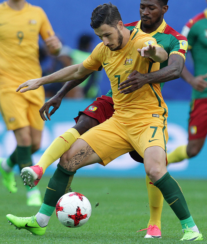 Cameroon vs Australia (1-1). FIFA Confederations Cup 2017